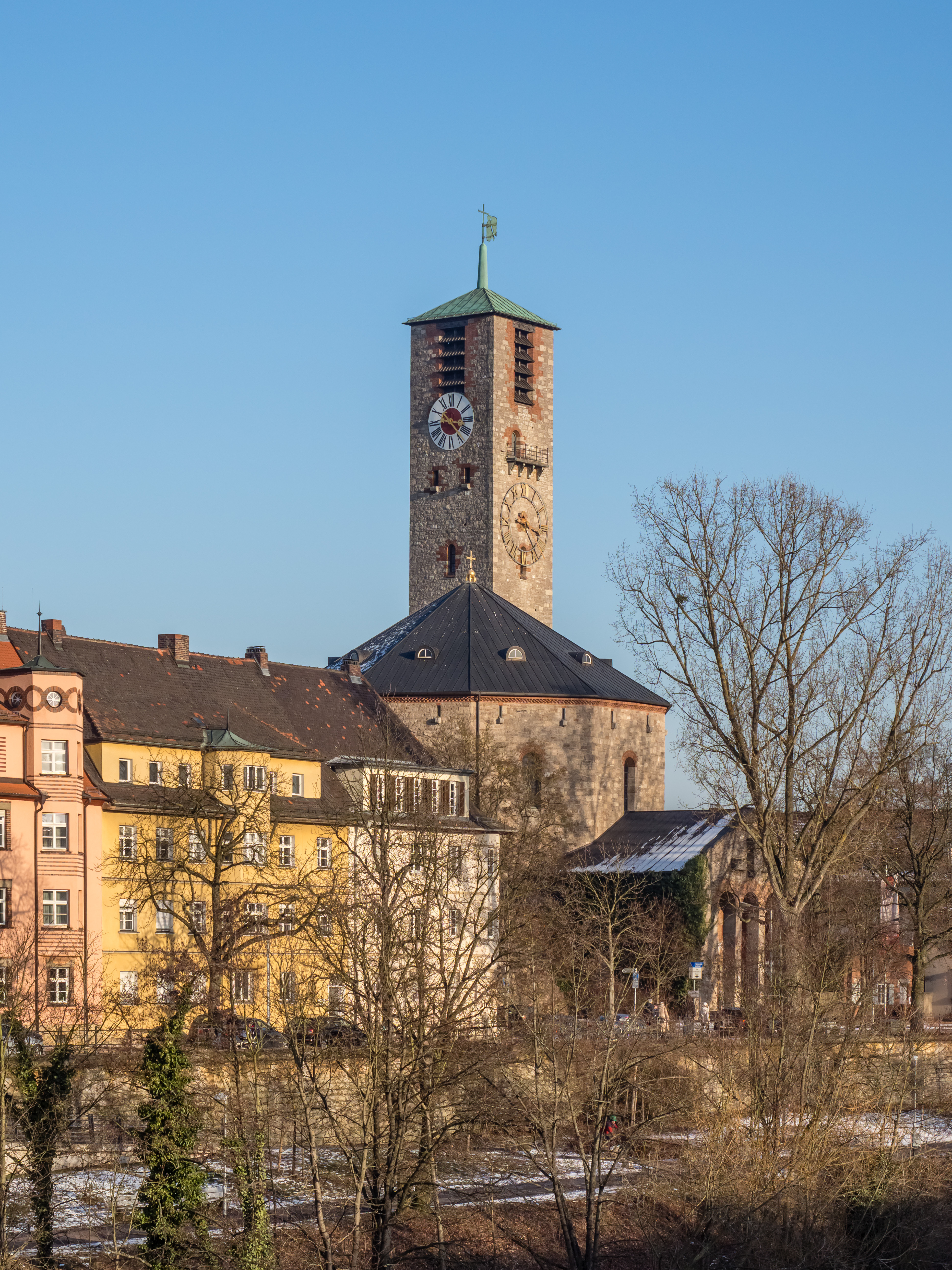 Church of the Redeemer (Bamberg)